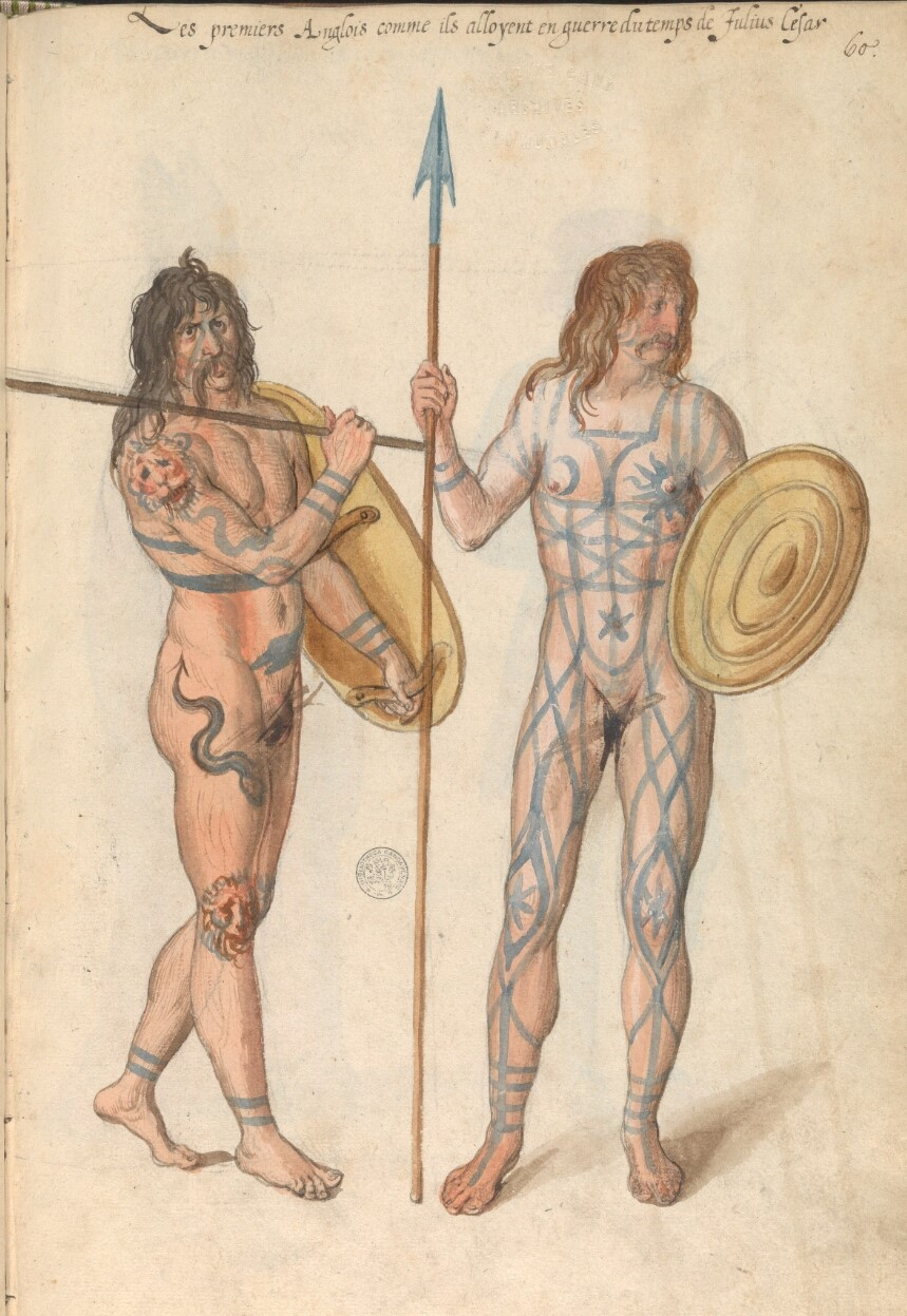 Excerpt from the manuscript "Théâtre de tous les peuples et nations de la terre avec leurs habits et ornemens divers, tant anciens que modernes, diligemment depeints au naturel". Painted by Lucas d'Heere in the 2nd half of the 16th century.